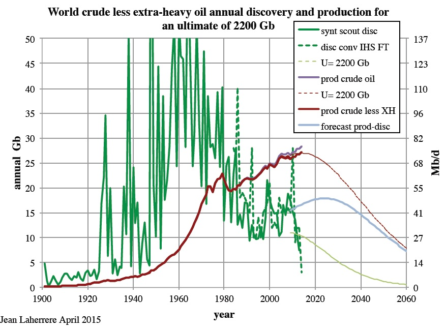 Global oil discovery and production, showing peak discovery in the 1960s.